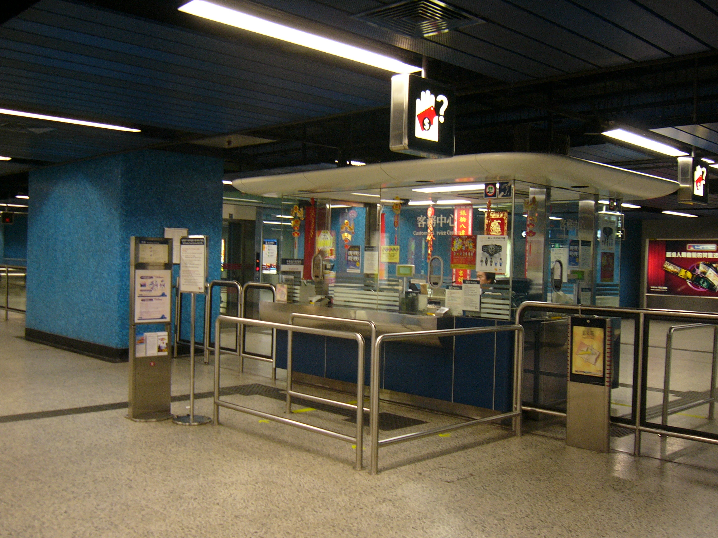 The customer service center at Lam Tin MTR Station, Hong Kong.